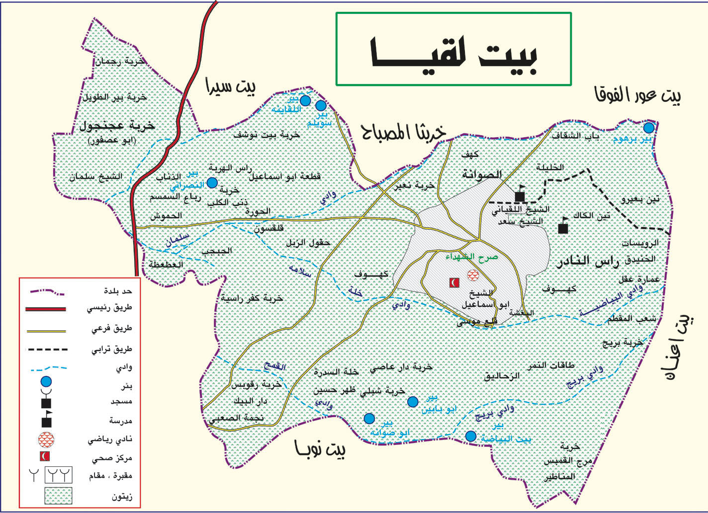 خريطة بيت لقيا و البلدات الأخرى التي تحدها